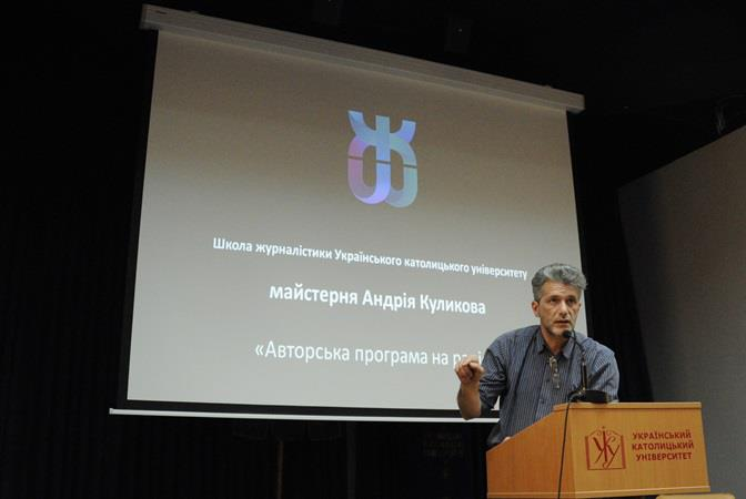 Майстер-клас